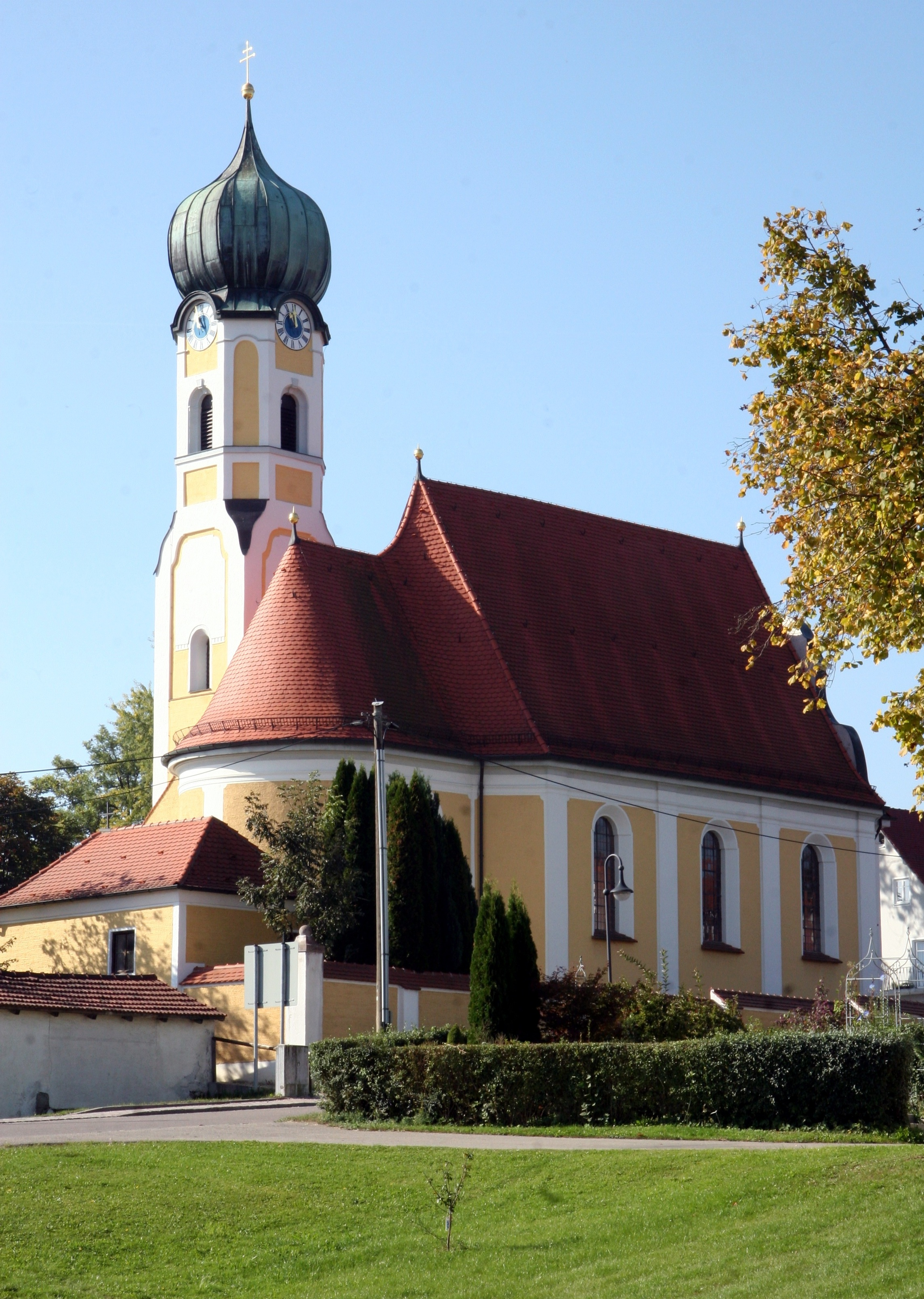 Monument, catholic subsidiary church St. Jakobus, new baroque area, built 1908/09 from Johann Schott; with interior decoration